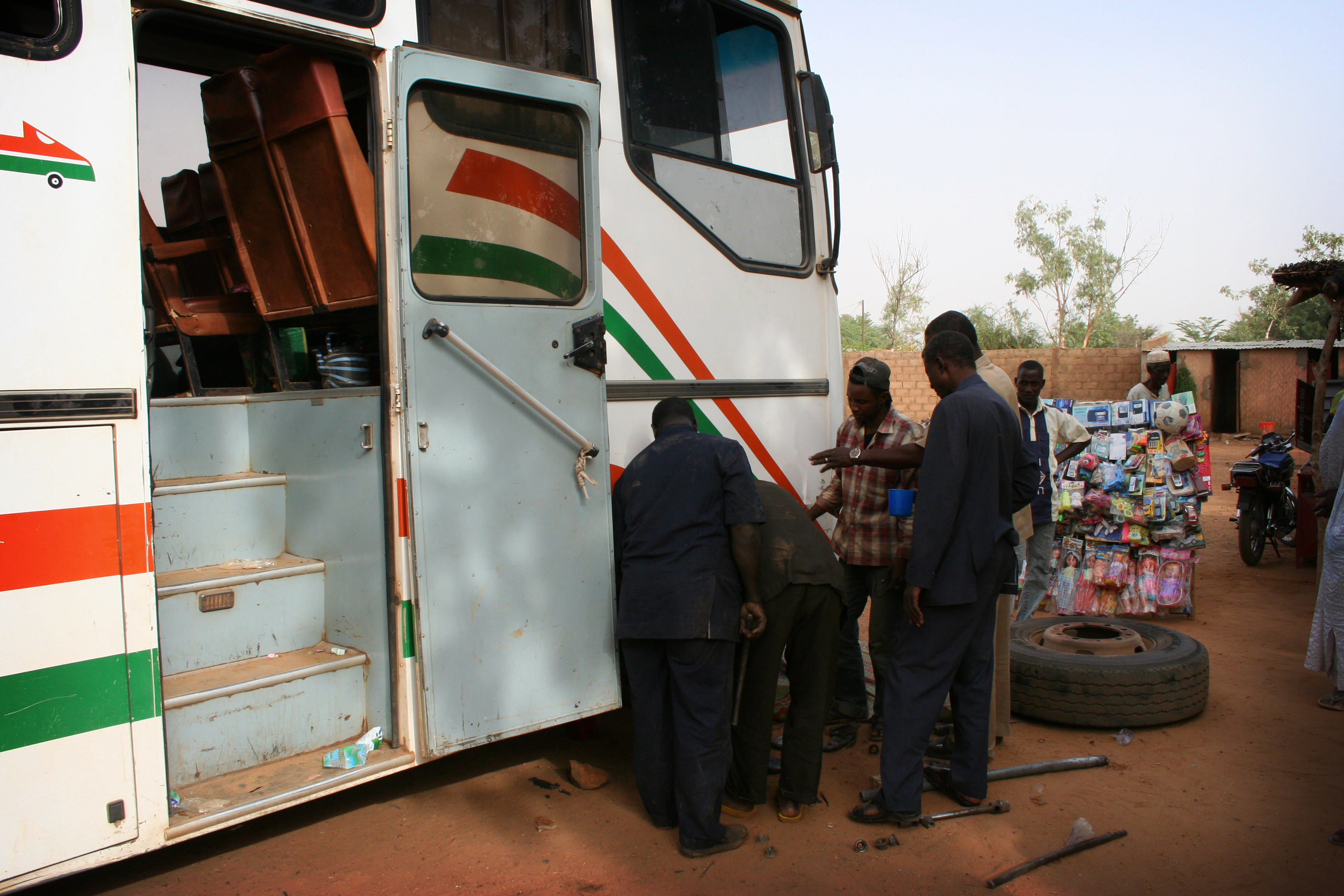 March 31, 2009 - Last night in Niger, we spent at the bus station. We wanted to be sure that we would be on time for the bus. I didn't sleep that much. I coudn't sleep much in the bus either, but I enjoyed the views. At the second stop, the bus almost left without Leopold and me. We had to run to jump into the driving bus. In Birnin Konni, there were tireproblems (yes, again). We had to wait for an hour or something. This isn't the first tire they changed. I think they changed both tires on the other side of the bus as well. In Niamey, the plane was still there, so all was well. The bus trip took about 16.5 hour though.